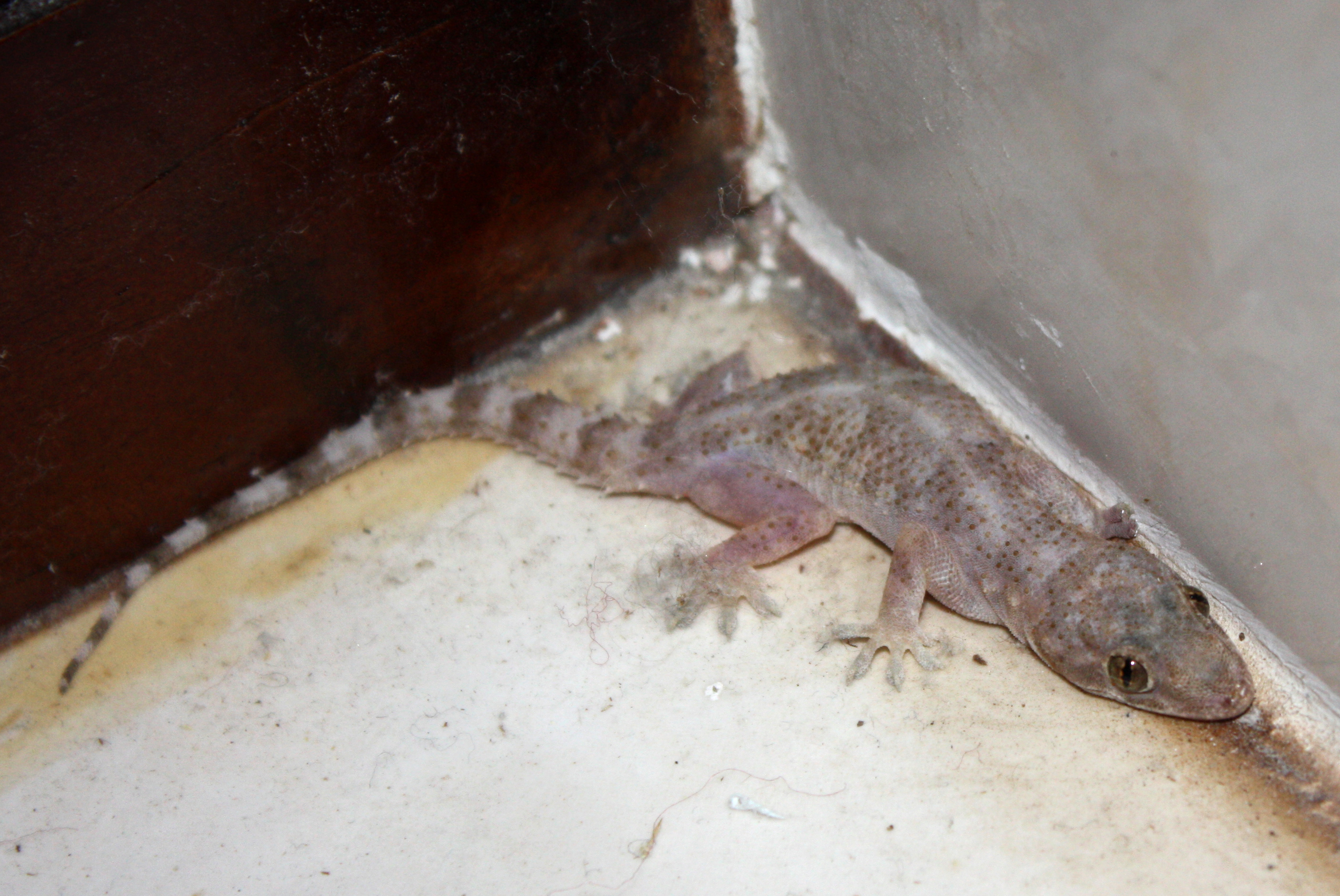 Tropical House Gecko (Hemidactylus mabouia). Coulibistrie, Dominica.